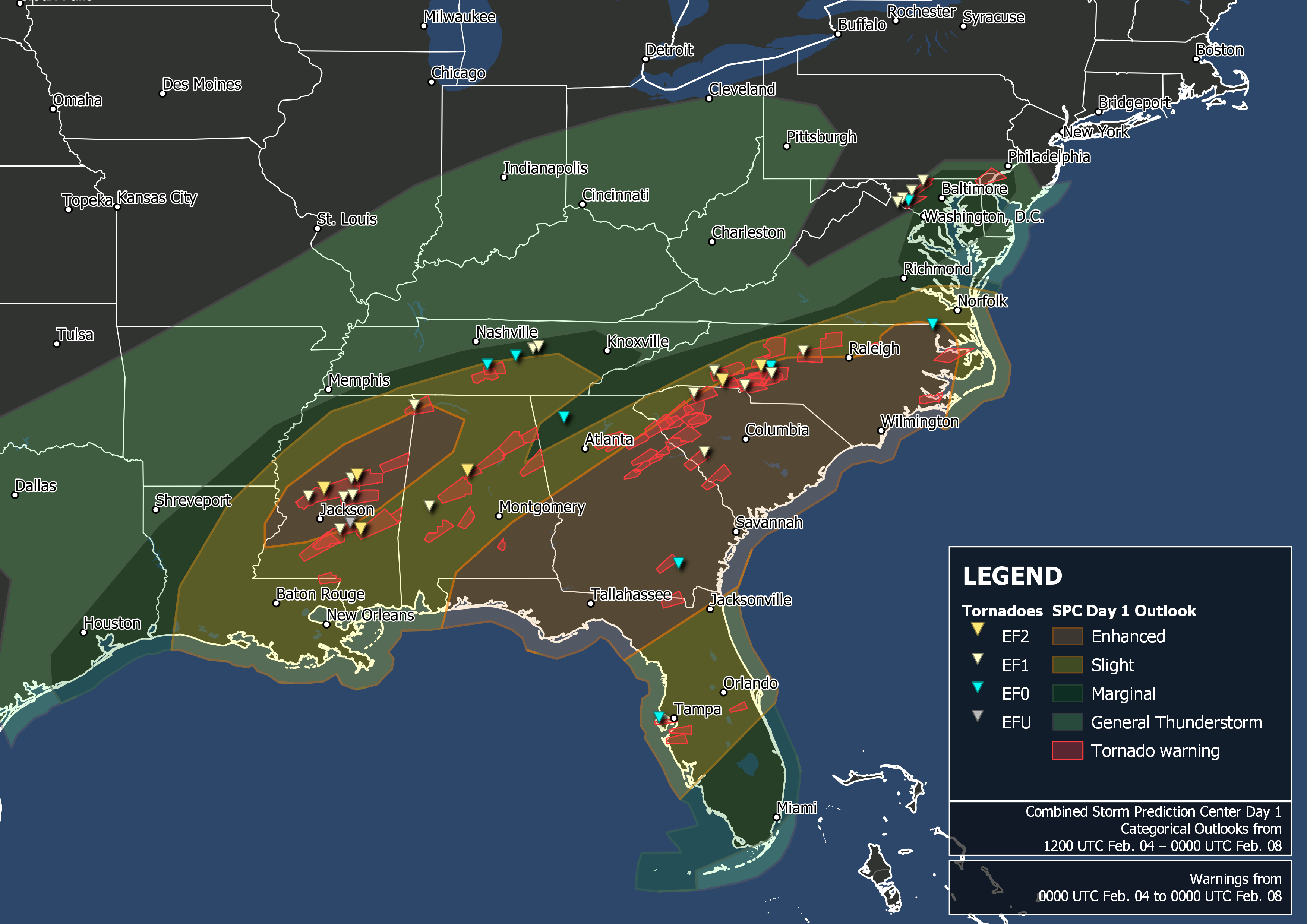 Map of tornado warnings issued by the National Weather Service between February 4 through February 7, 2020, over the southeastern United States and tornadoes confirmed and surveyed by the National Weather Service. Map produced in QGIS with border outlines from the United States Census Bureau. National Weather Service warning outlines available from the Iowa Environmental Mesonet and tornado data available from the National Weather Service.